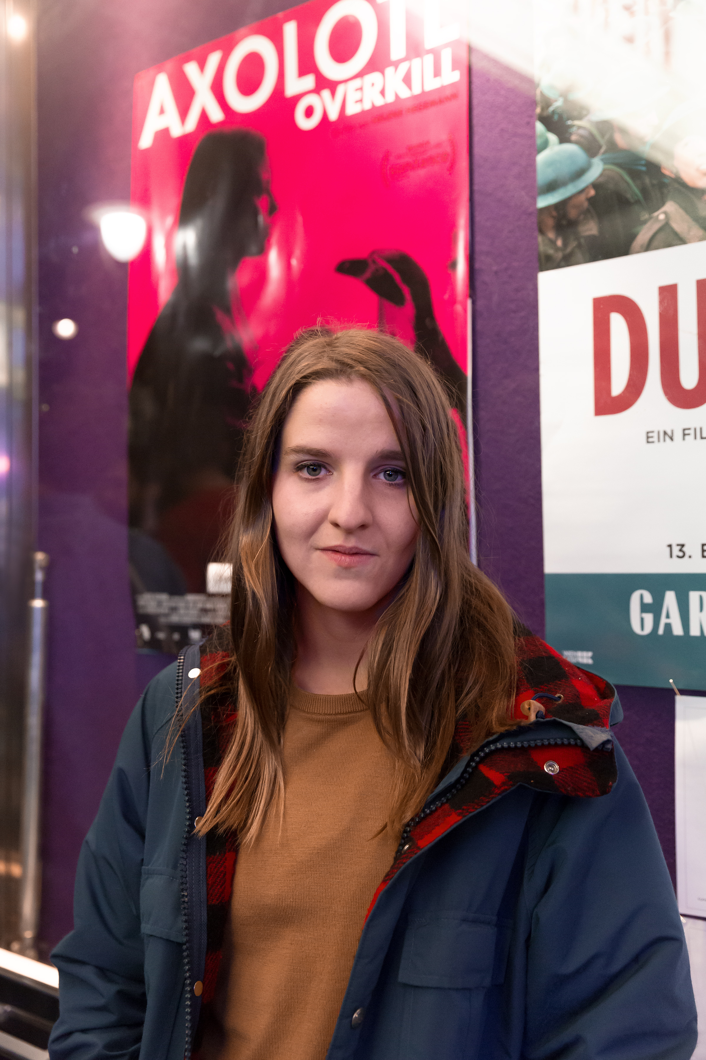 Helene Hegemann at the Austrian premiere of Axolotl Overkill at Gartenbaukino in Vienna.